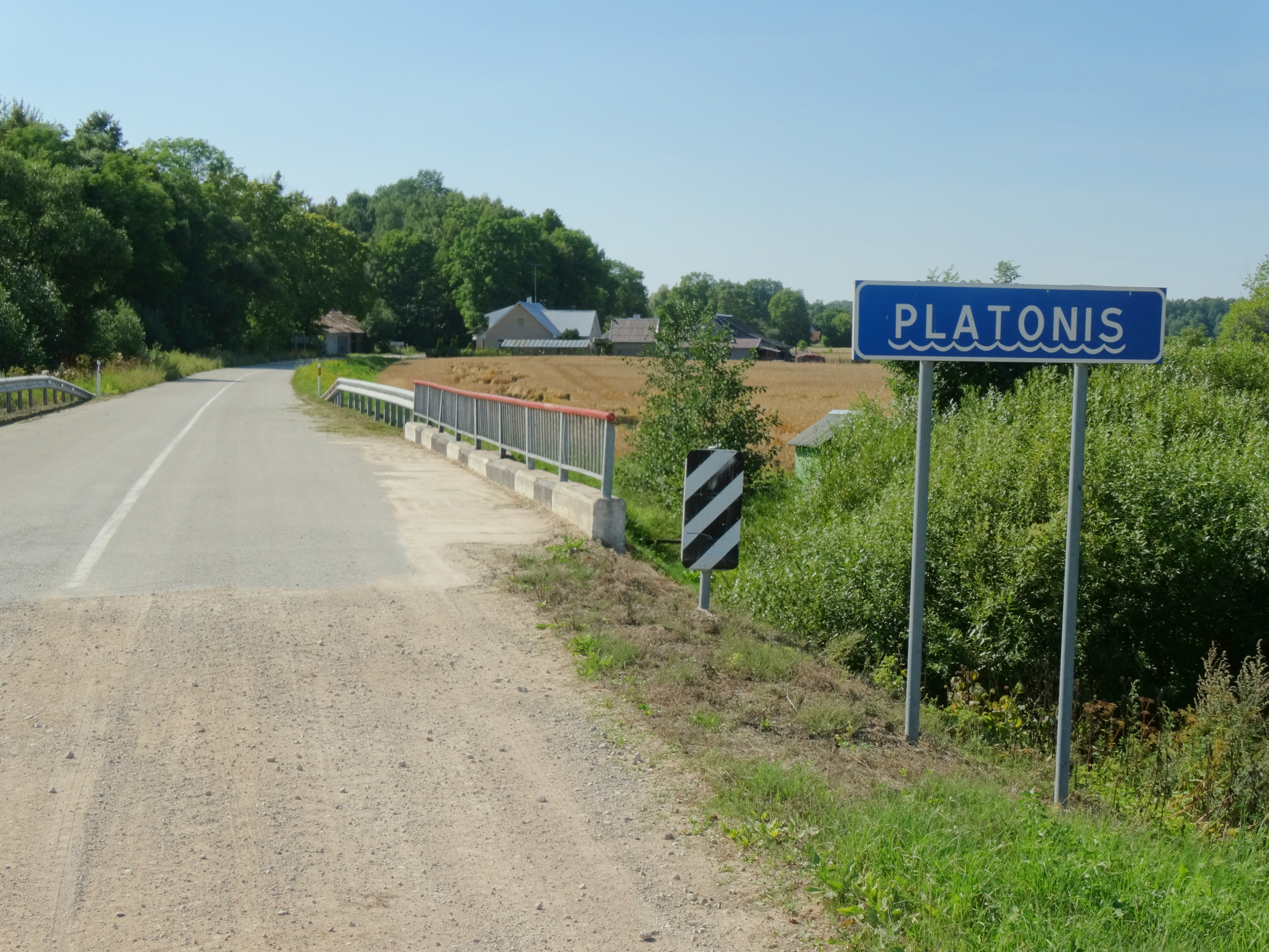 Platonis river by Vaineikiai, Joniškis District, Lithuania